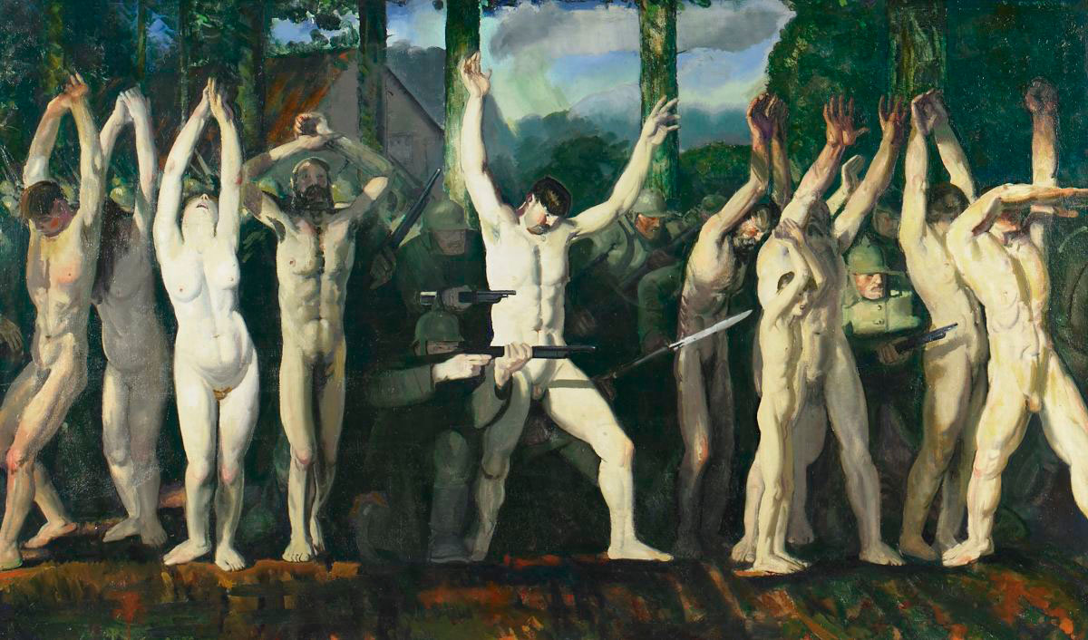 An oil on canvas painting inspired by an incident in August 1914 where German soldiers used Belgian townspeople as human shields.